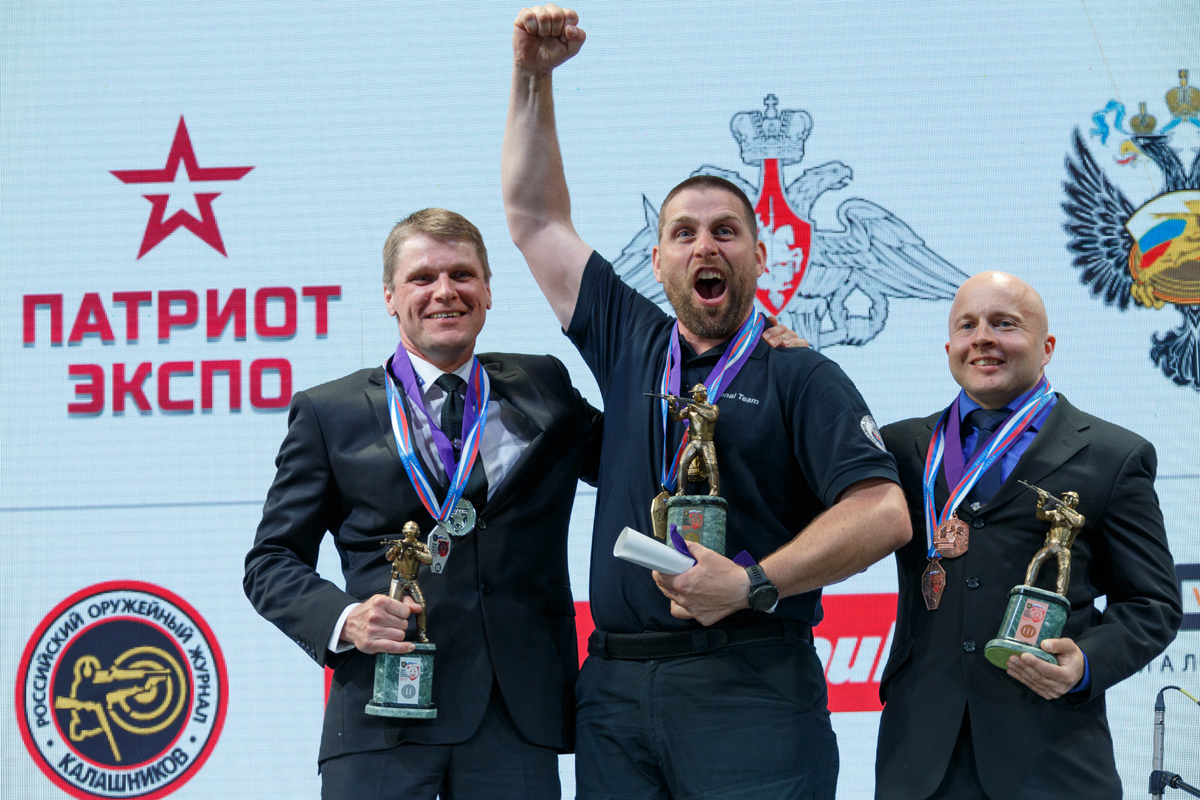 Håvard Østgaard (center) winning the Standard Division overall at the 2017 IPSC Rifle World Shoot in front of Sami Hautamaki (left) and Timo Vehvilainen (right)